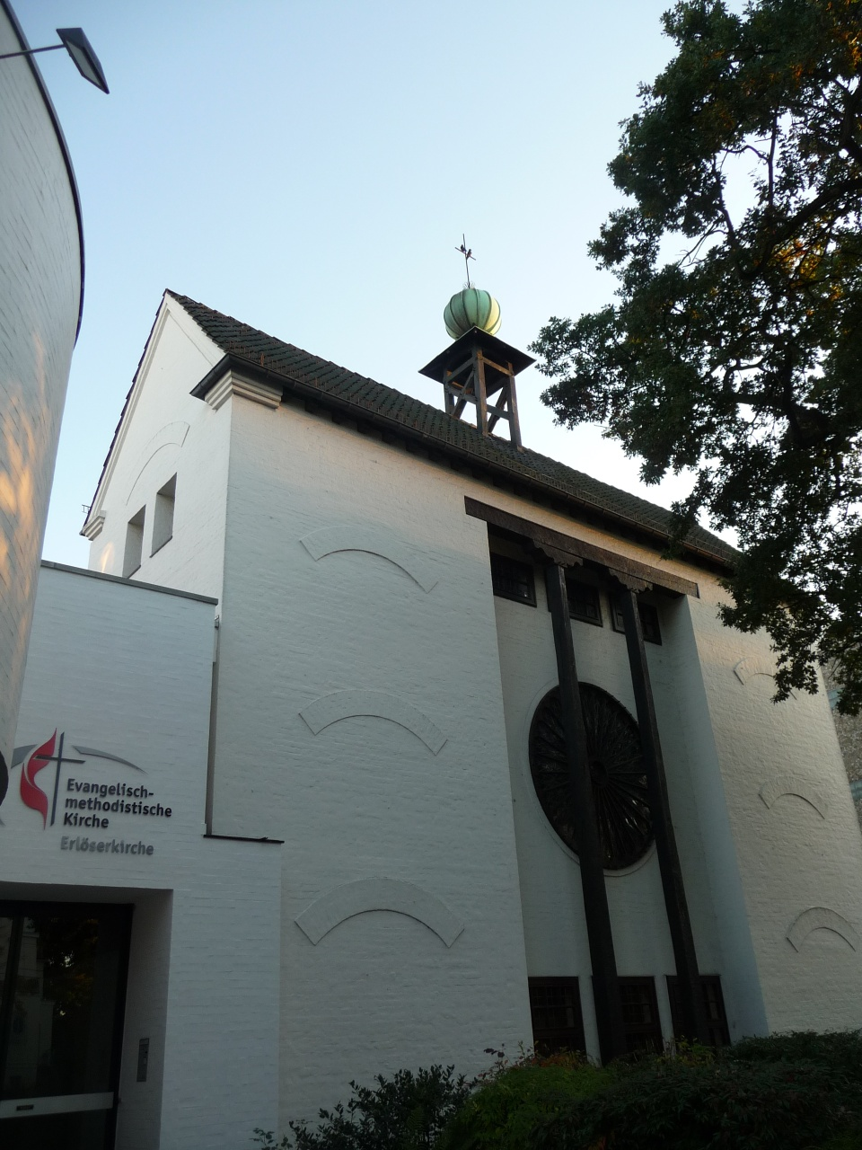 ev.-meth. church in Bremen-Schwachhausen